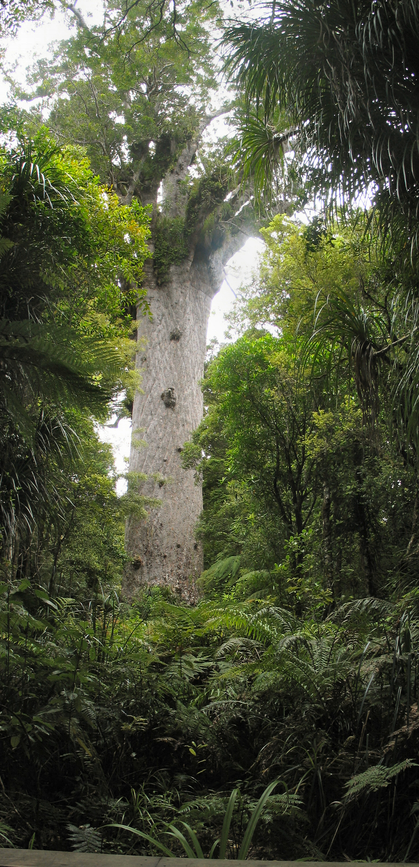 Tane Mahuta, "God of the Forest", largest living Kauri tree in New Zealand. Waipoua Forest, Northland, New Zealand.